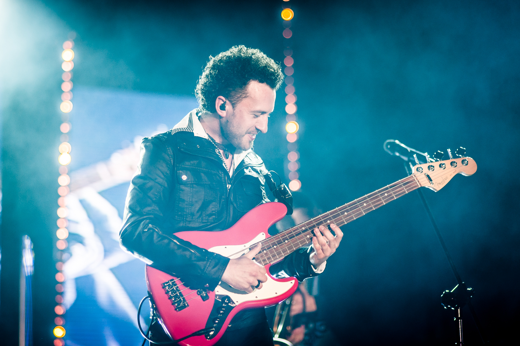 Robert Szewczuga, the bass player